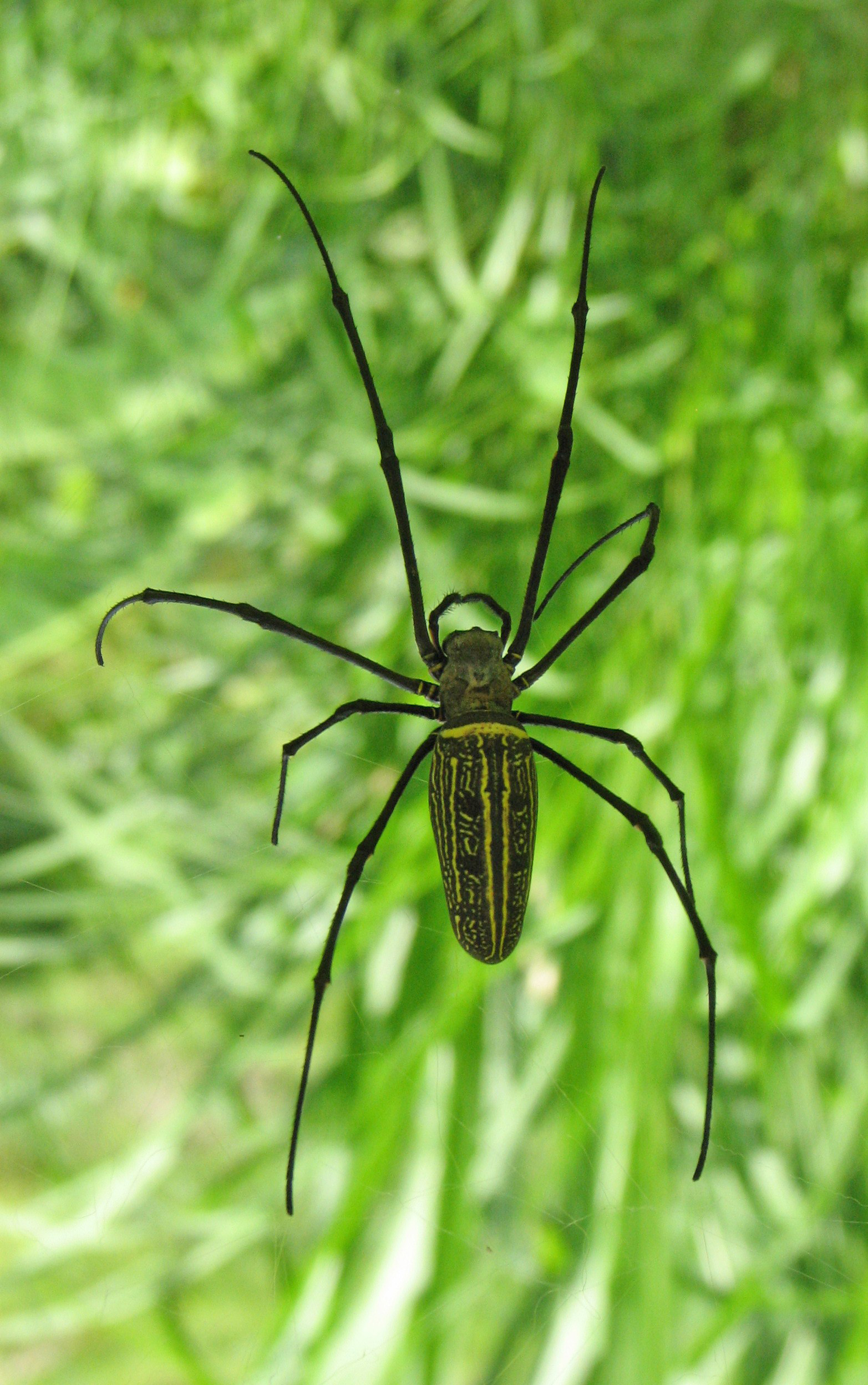 Female specimen found in the forest, near from Ubud (Bali island, Indonesia)